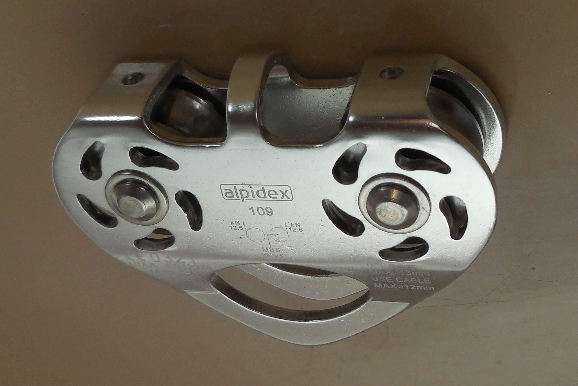 Tandem role, Alpidex, Typ 109, 25kn (2x 12,5kn), minimum breaking strength, max. 12 mm cable